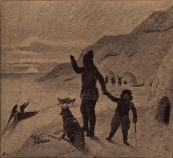 Illustration from the book "With Peary near the pole" by Eivind Astrup